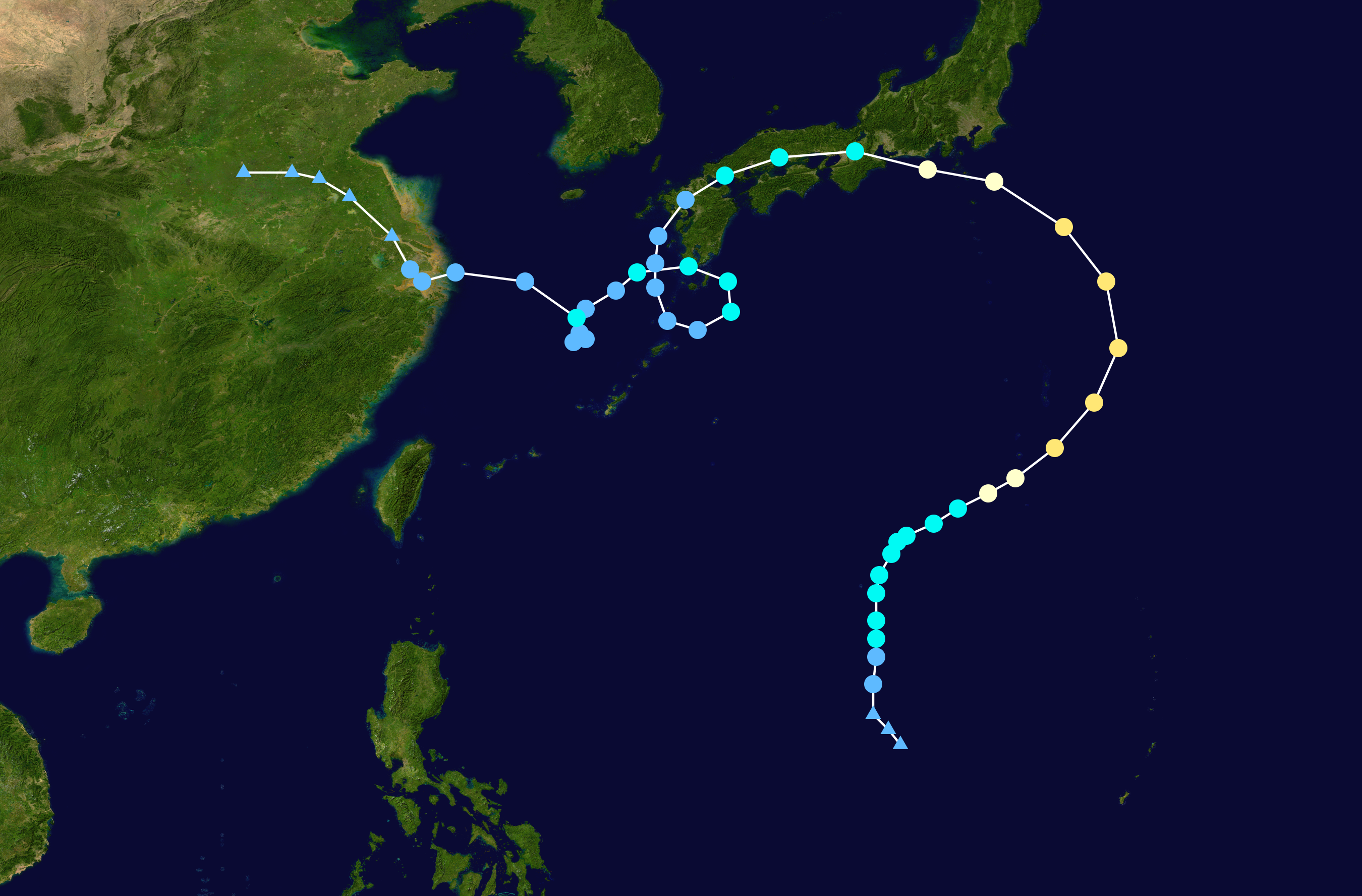 Track map of Typhoon Jongdari of the 2018 Pacific typhoon season. The points show the location of the storm at 6-hour intervals. The colour represents the storm's maximum sustained wind speeds as classified in the Saffir–Simpson scale (see below), and the shape of the data points represent the nature of the storm, according to the legend below. Saffir–Simpson scale Tropical depression≤38 mph≤62 km/h Category 3111–129 mph178–208 km/h Tropical storm39–73 mph63–118 km/h Category 4130–156 mph209–251 km/h Category 174–95 mph119–153 km/h Category 5≥157 mph≥252 km/h Category 296–110 mph154–177 km/h Unknown Storm type Tropical cyclone Subtropical cyclone Extratropical cyclone / Remnant low / Tropical disturbance / Monsoon depression